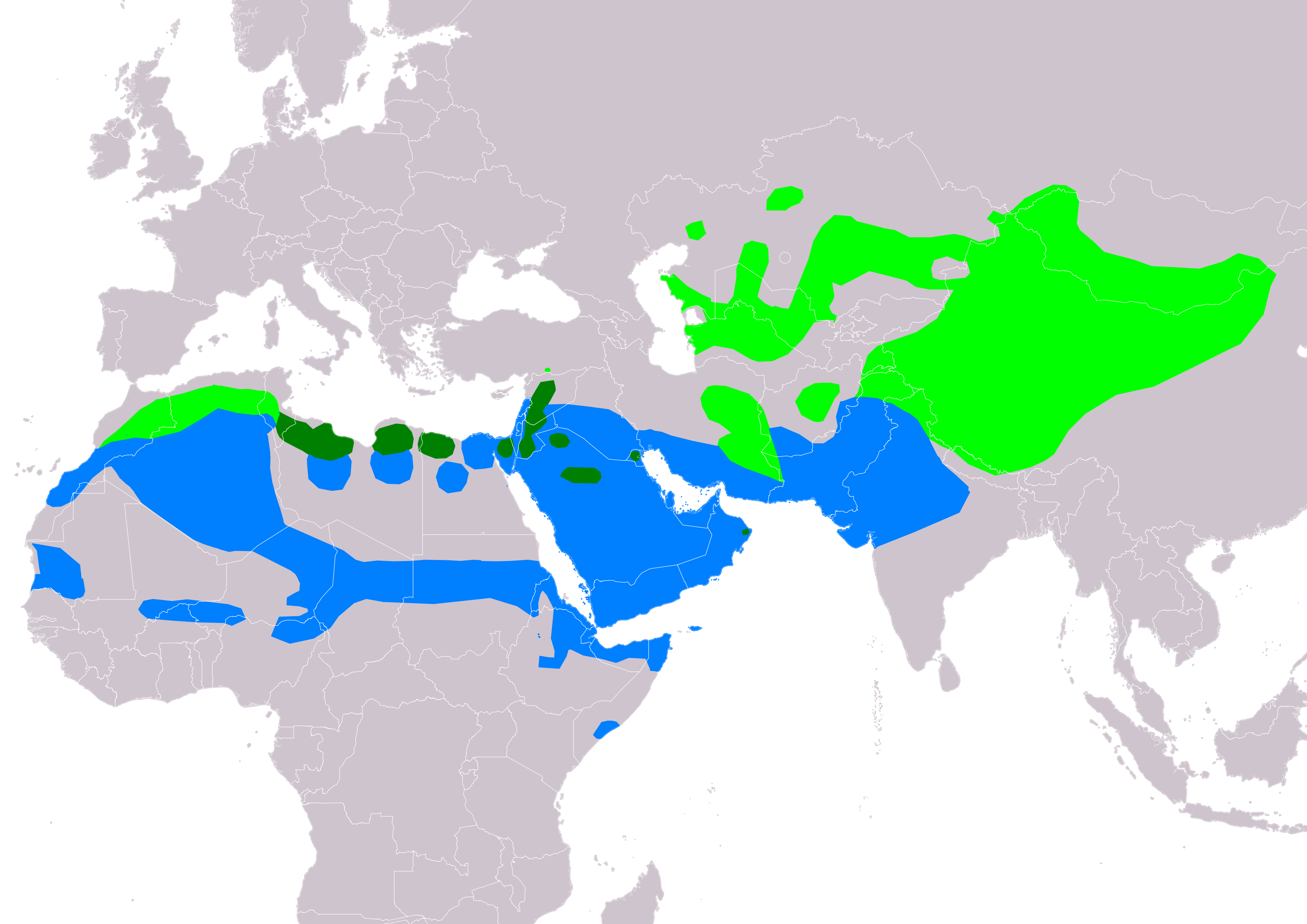 Distribution map of Desert Wheatear (Oenanthe deserti) according to IUCN version 2019.3; key: Legend: Extant, breeding (#00FF00), Extant, resident (#008000), Extant, non-breeding (#007FFF)